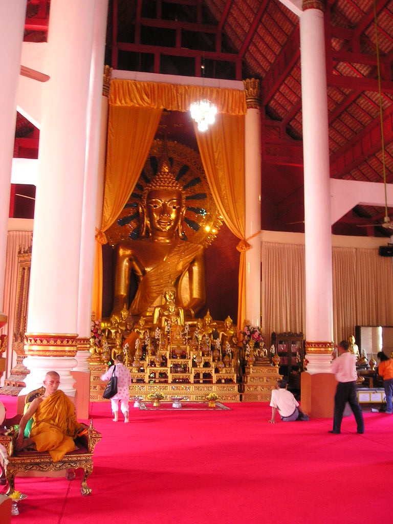 Main Buddha image in Royal Prayer Hall ("Viharn Luang"), Wat Phra Singh, Chiang Mai, northern Thailand